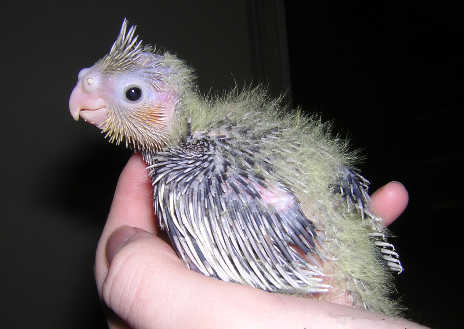 A chick Cockatiel.